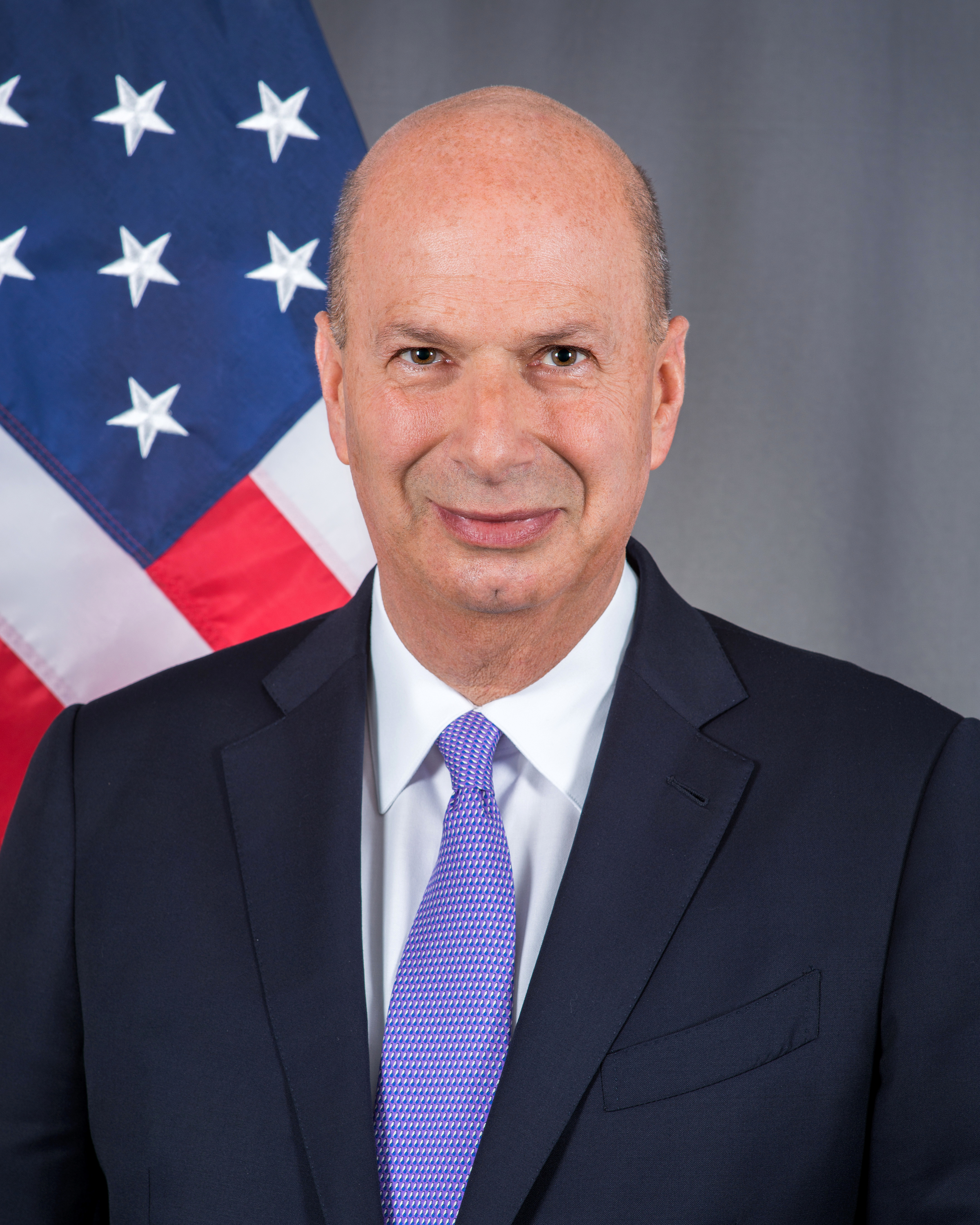 Gordon Sondland official photo